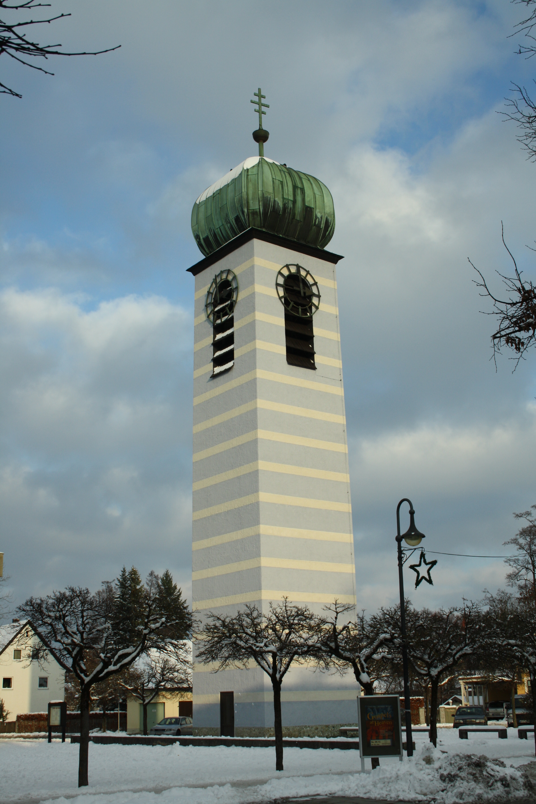 Steeple of the roman catholic church St. Elisabeth in Planegg.